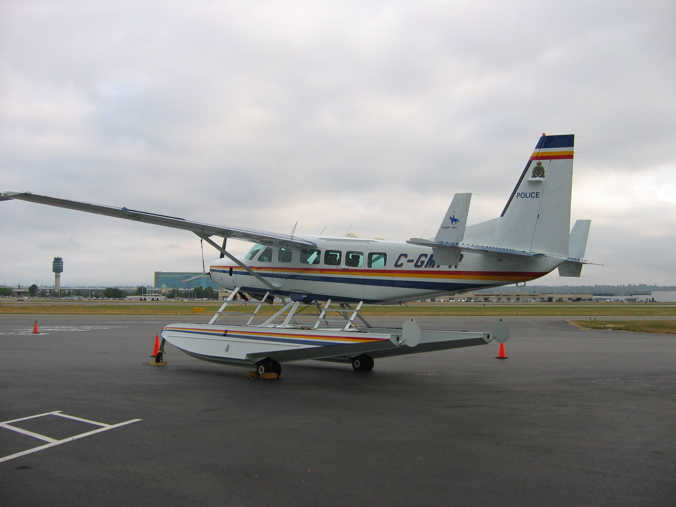 An RCMP Cessna 208 Caravan on floats. Picture taken at Vancouver International Airport.